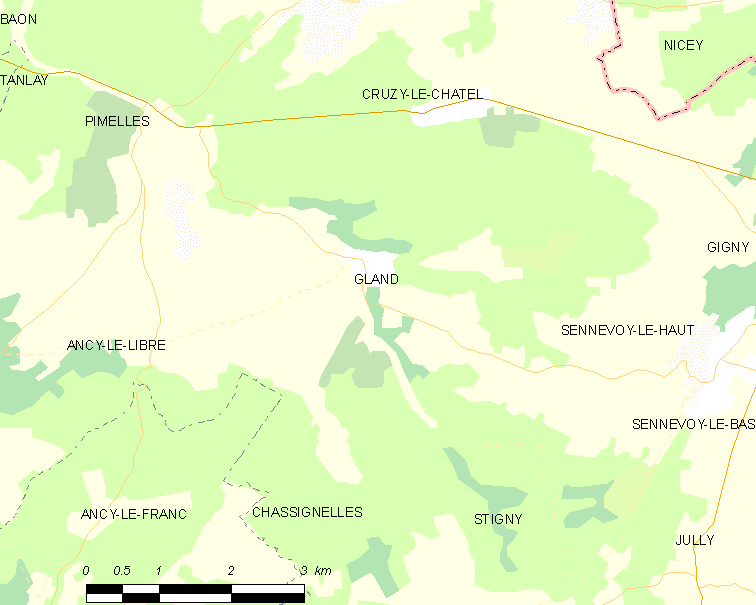 Map of French municipality Gland